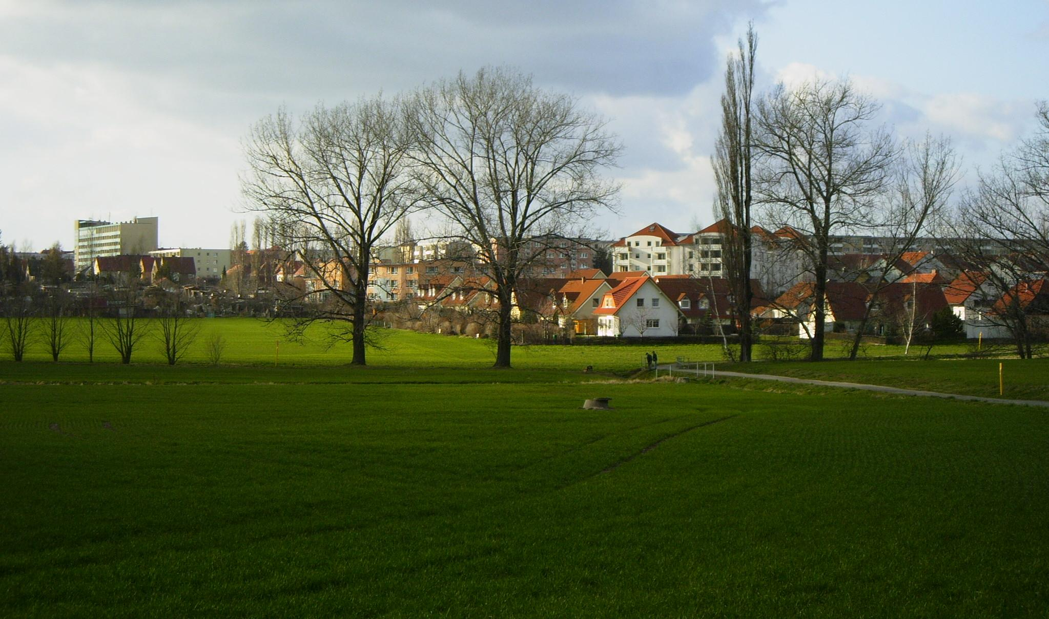 View from Auritz to Bautzens district "Ostvorstadt".